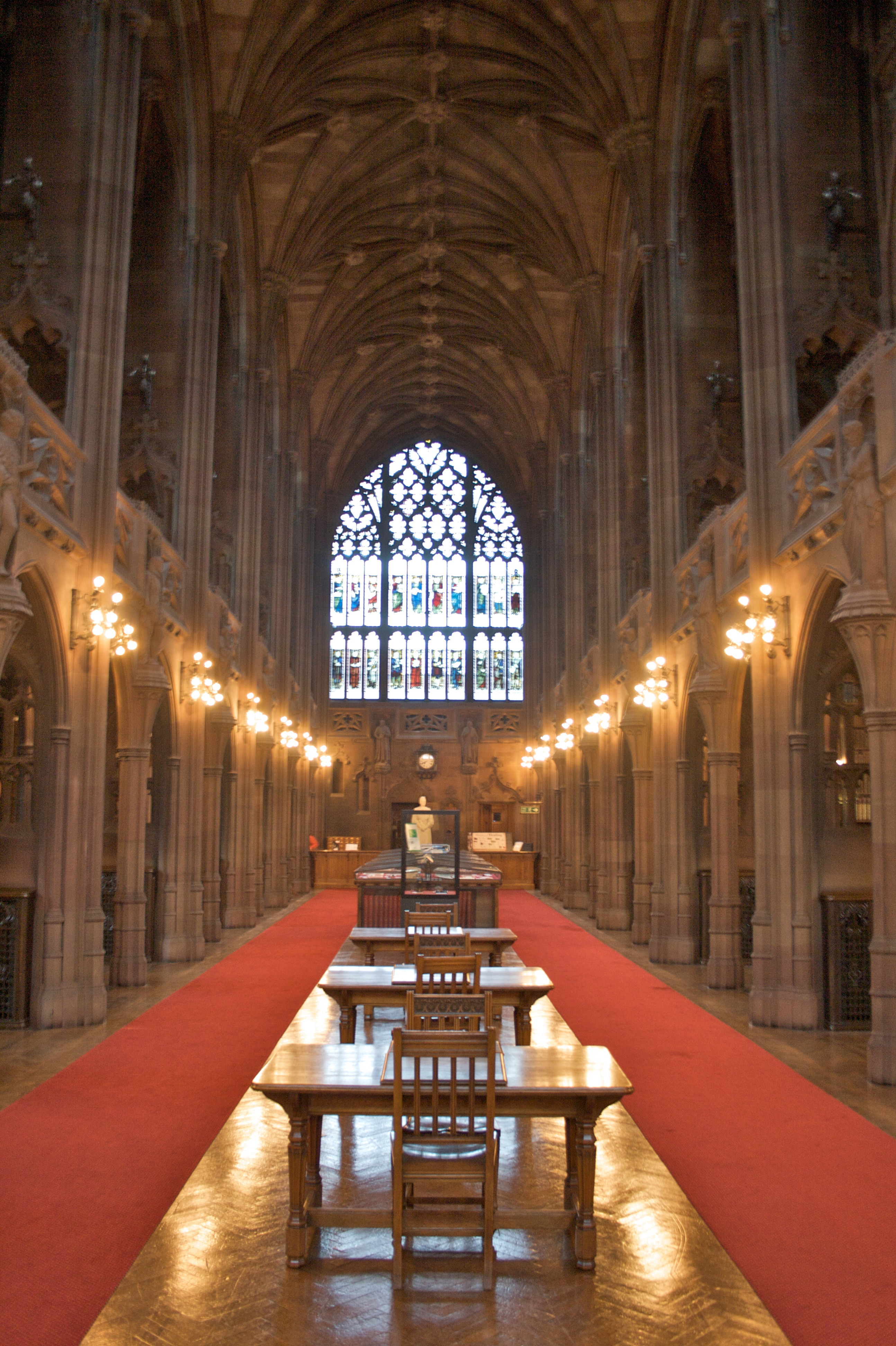 Reading Room of the John Rylands Library, Manchester, England.